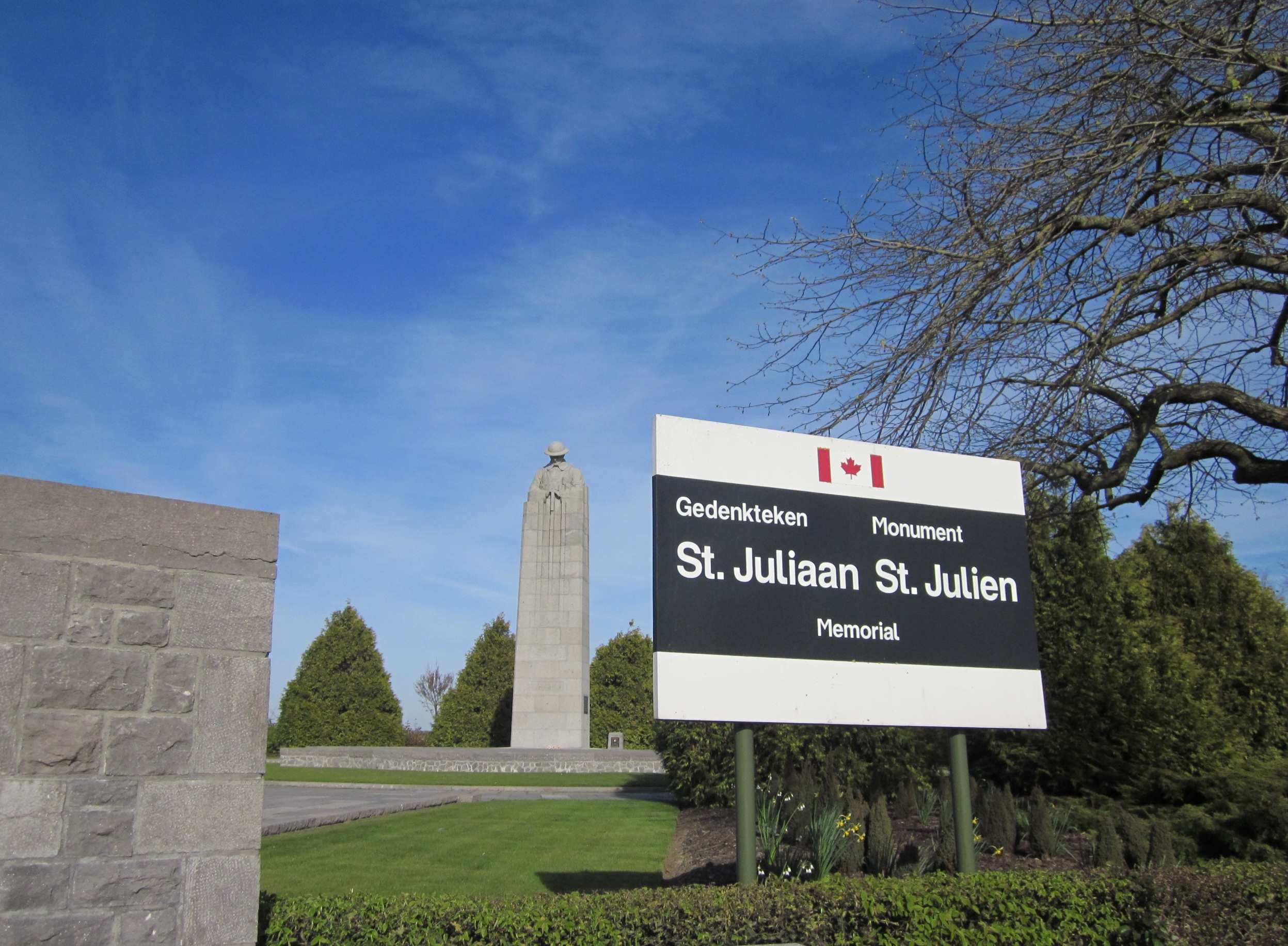 World war I memorial of Canada 'The Brooding Soldier' in St.Julien (Langemark), Belgium